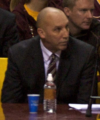 University of Minnesota men's basketball assistant coach Ron Jirsa.